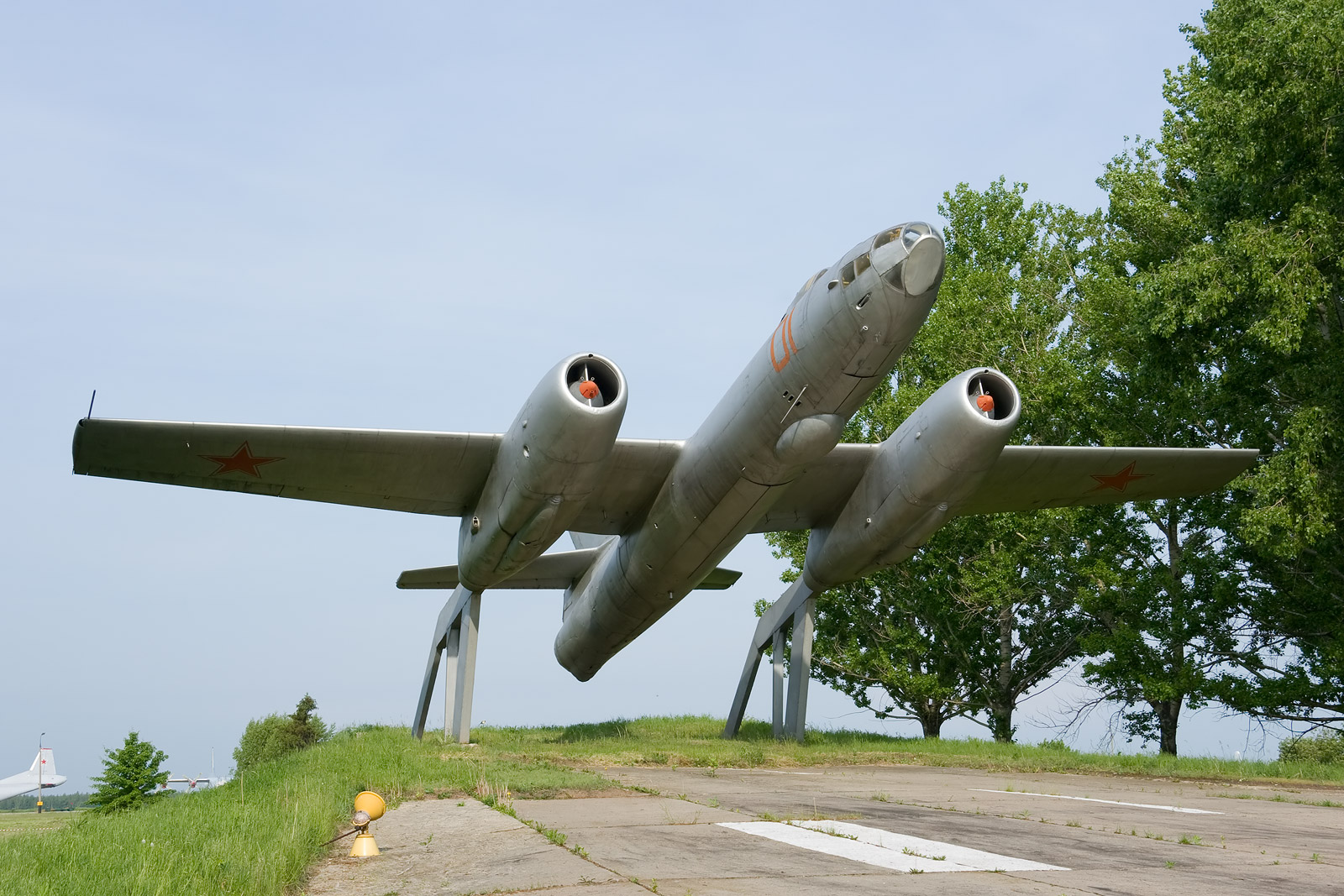 Preserved Ilyushin Il-28